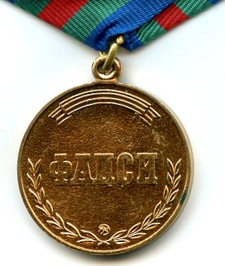 Reverse of the Medal for Military Cooperation.